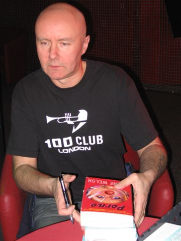 Irvine Welsh (b. 1958), Scottish novelist